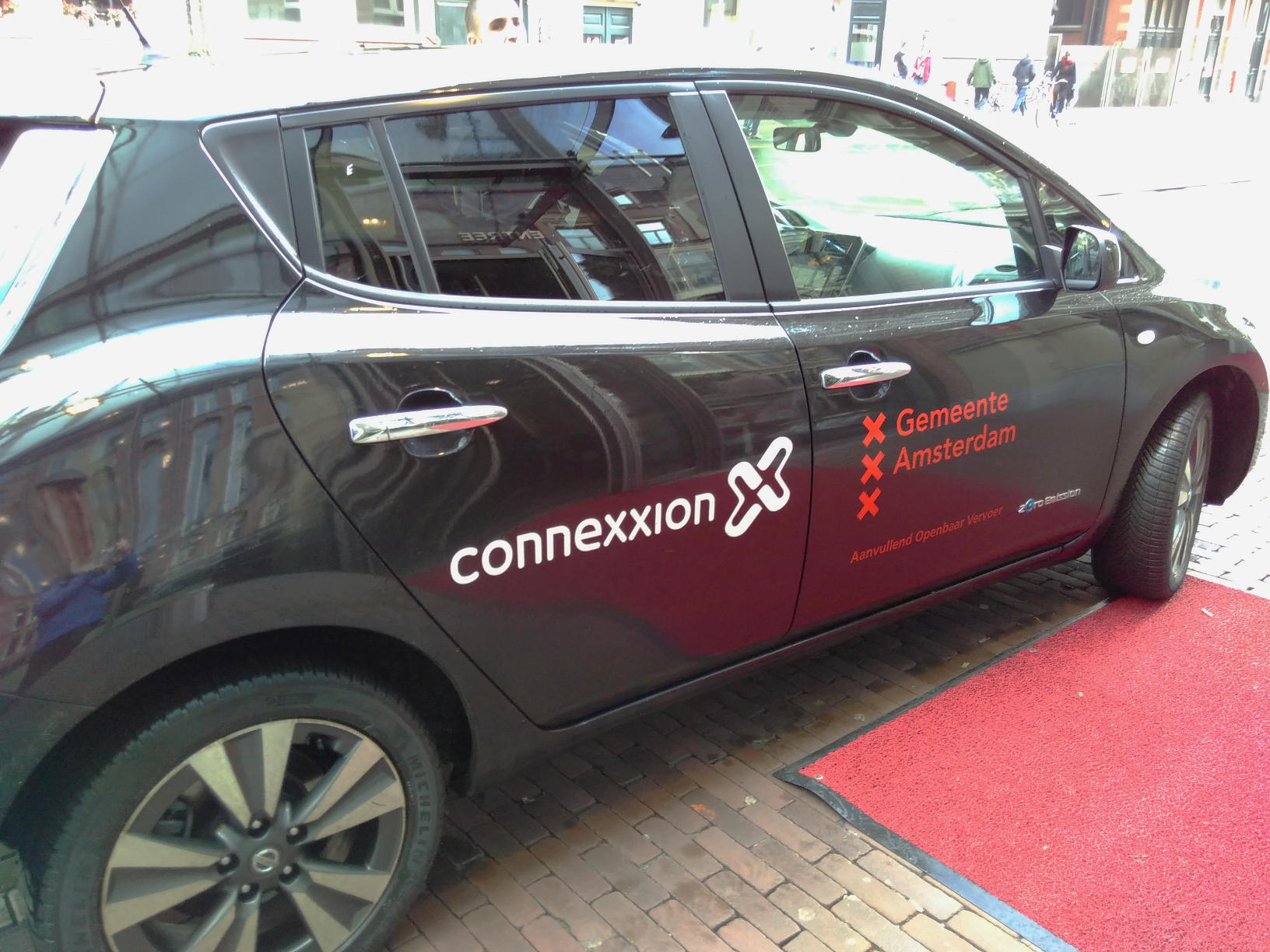 Nissan Leaf owned by Connexxion / Gemeente Amsterdam used as special public transport service in Amsterdam